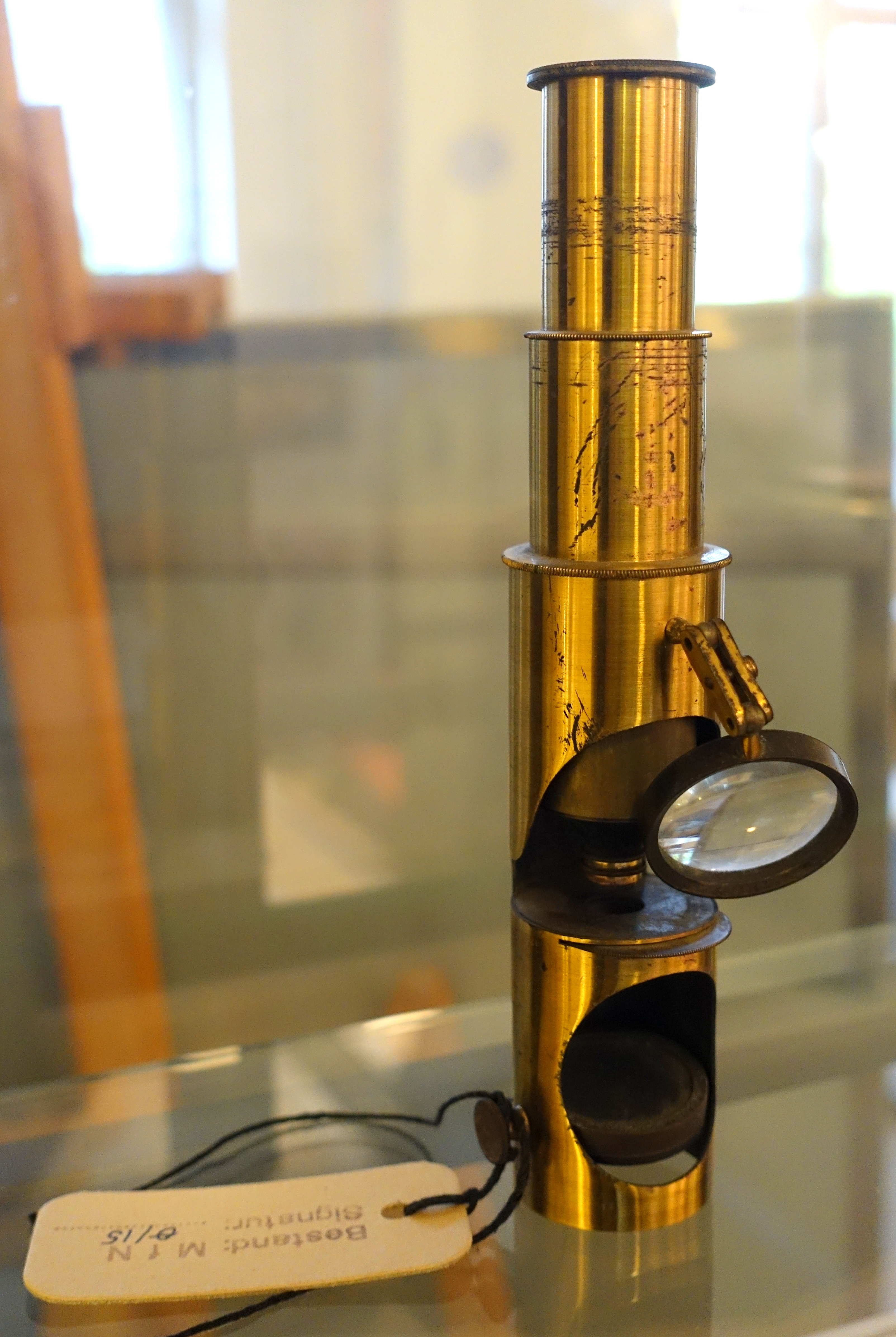 Exhibit in Museum für Naturkunde, Berlin, Germany.